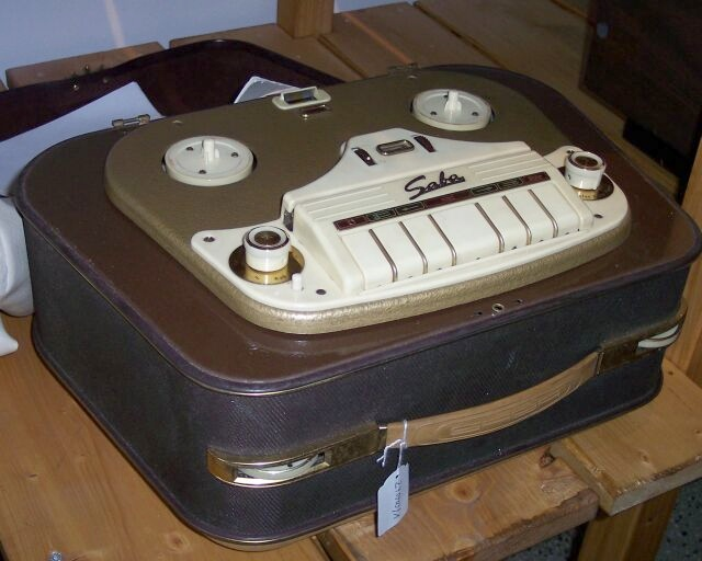 Tape recorder, model "Saba", ca. 1965-1970